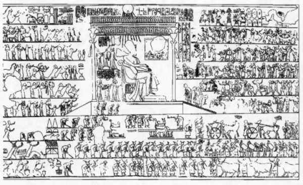 Foreign tributes scene from an El-Amarna tomb.